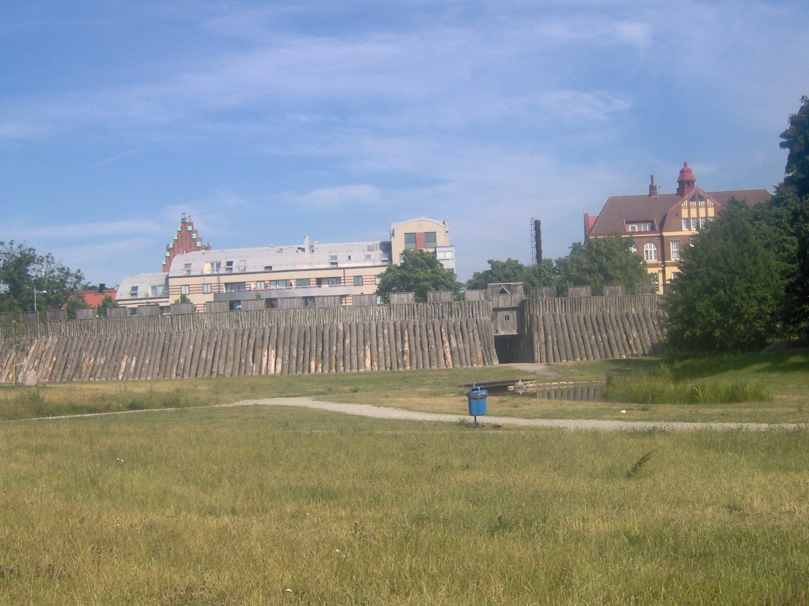 Trelleborgen viking castle rebuilt Source: taken by user july 7th 2005